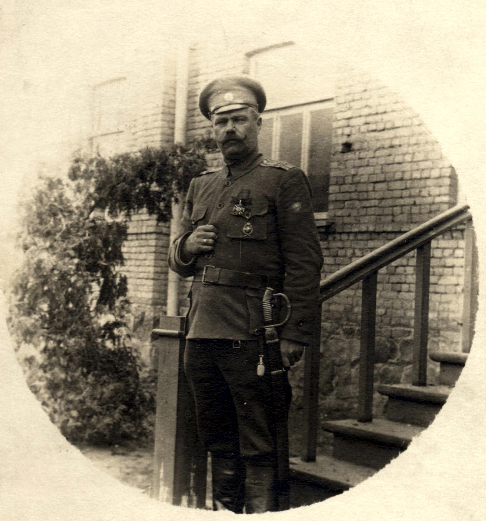 Photograph of Pēteris Slavens.